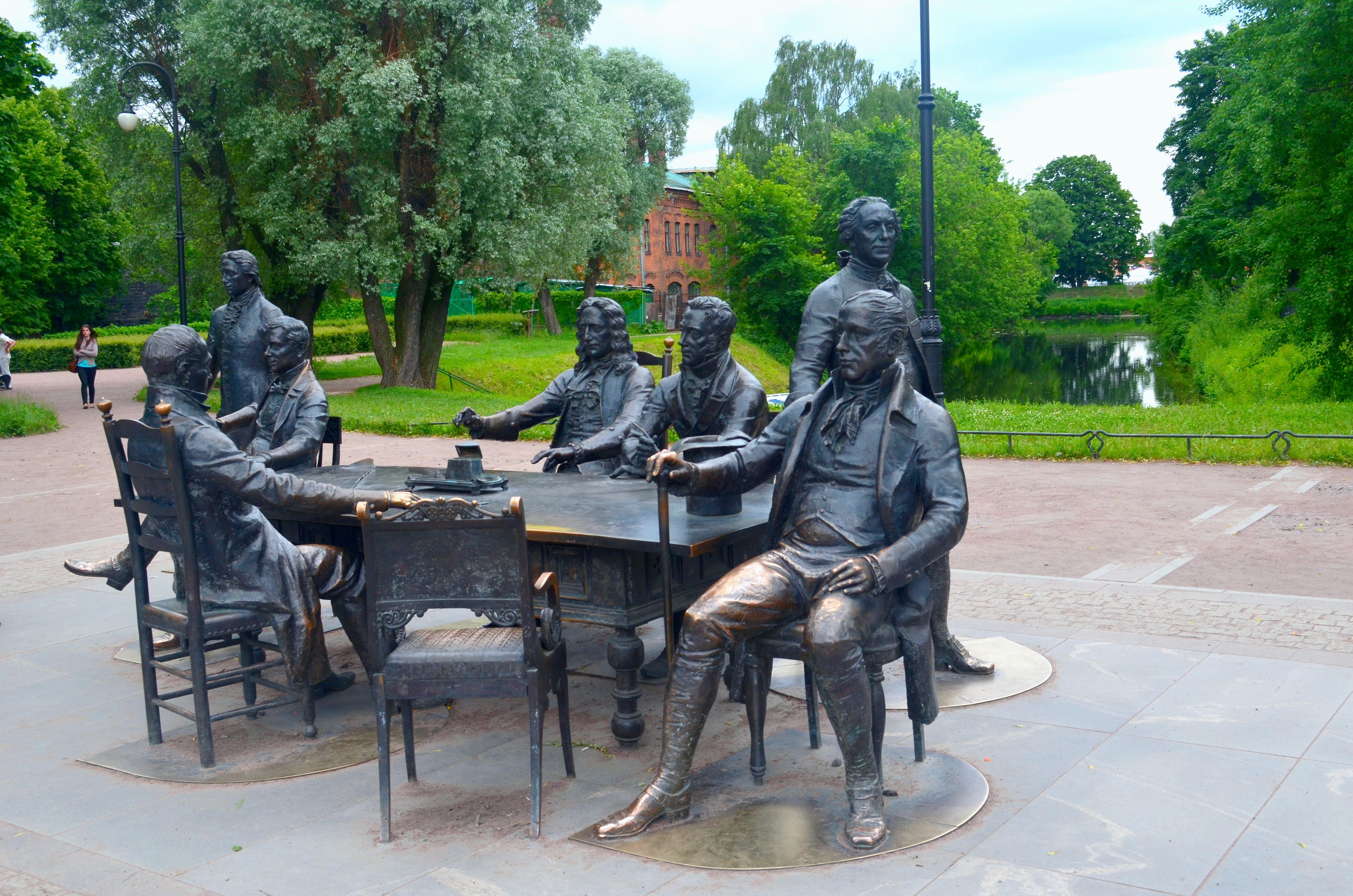 Sculptural group "Architects of St. Petersburg": Alexander Park, (between Kronverkskiy Prospect, Kronverkskaya Embankment and Kamennoostrovsky Avenue). Petrogradsky district, St. Petersburg.